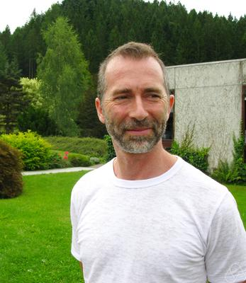 MFO Description: On the Photo: Cohen, Albert — Occasion: Workshop Wavelet and Multiscale Methods — Location: Oberwolfach — Author: Schmid, Renate — Source: MFO — Year: 2010 — Copyright: MFO — Photo ID: 12757